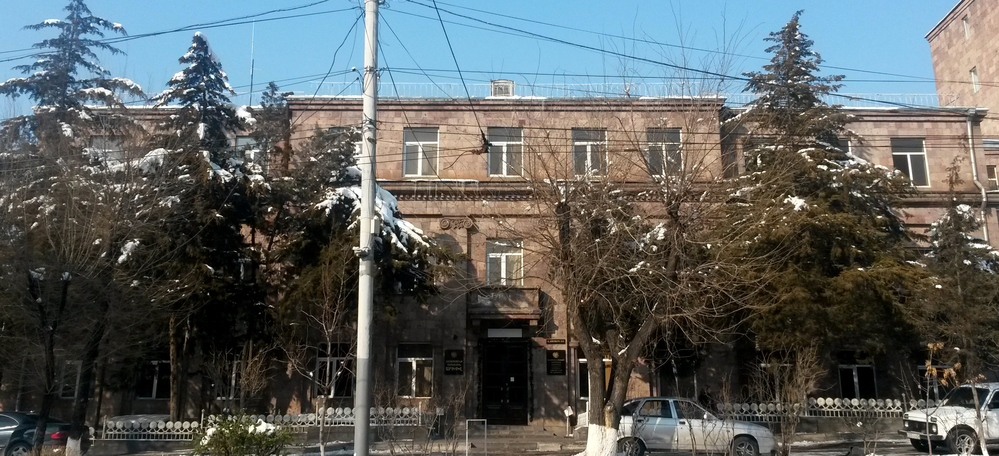 Հայաստանի ազգային արխիվի շենքը